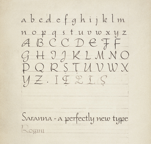 Typeface Saranna by Dutch-Austrian designer Stefan Schlesinger (1941). Note the missing letter "r"